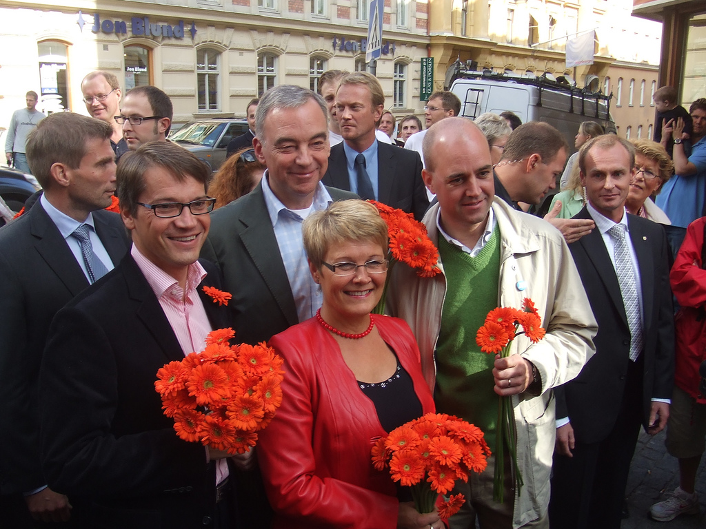 Party leaders of the opposition campaigning in Stockholm during the 2006 election to the Riksdag. From left: Göran Hägglund, Lars Leijonborg, Maud Olofsson, Fredrik Reinfeldt